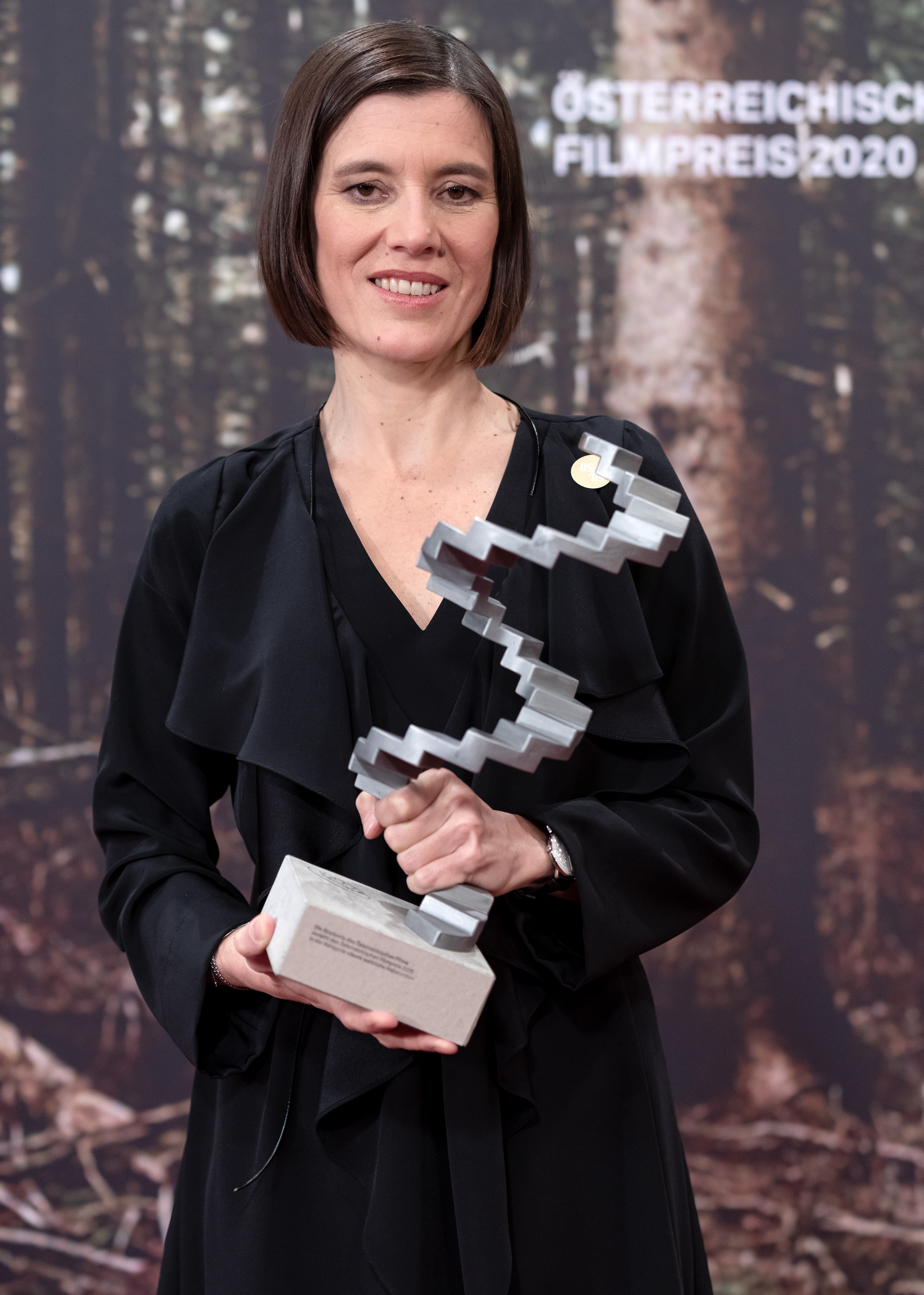 Pia Hierzegger (The Ground Beneath My Feet) at the award ceremony of the Austrian Film Awards 2020 (Auditorium Grafenegg at Grafenegg Castle, Lower Austria,Austria).